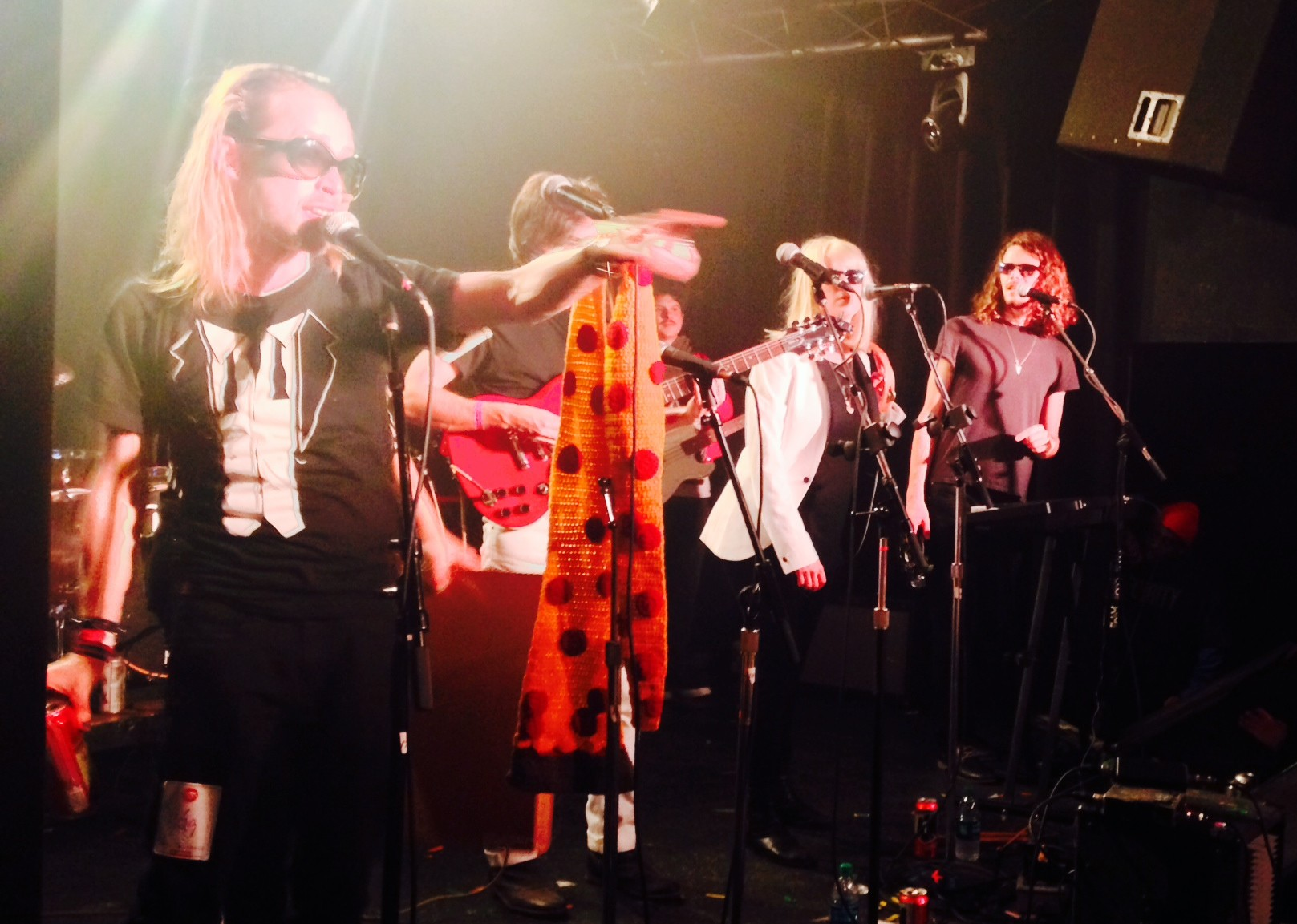 The comedy band Pizza Underground, featuring actor Macaulay Culkin, performing at the Double Door in Chicago on 11/29/2014